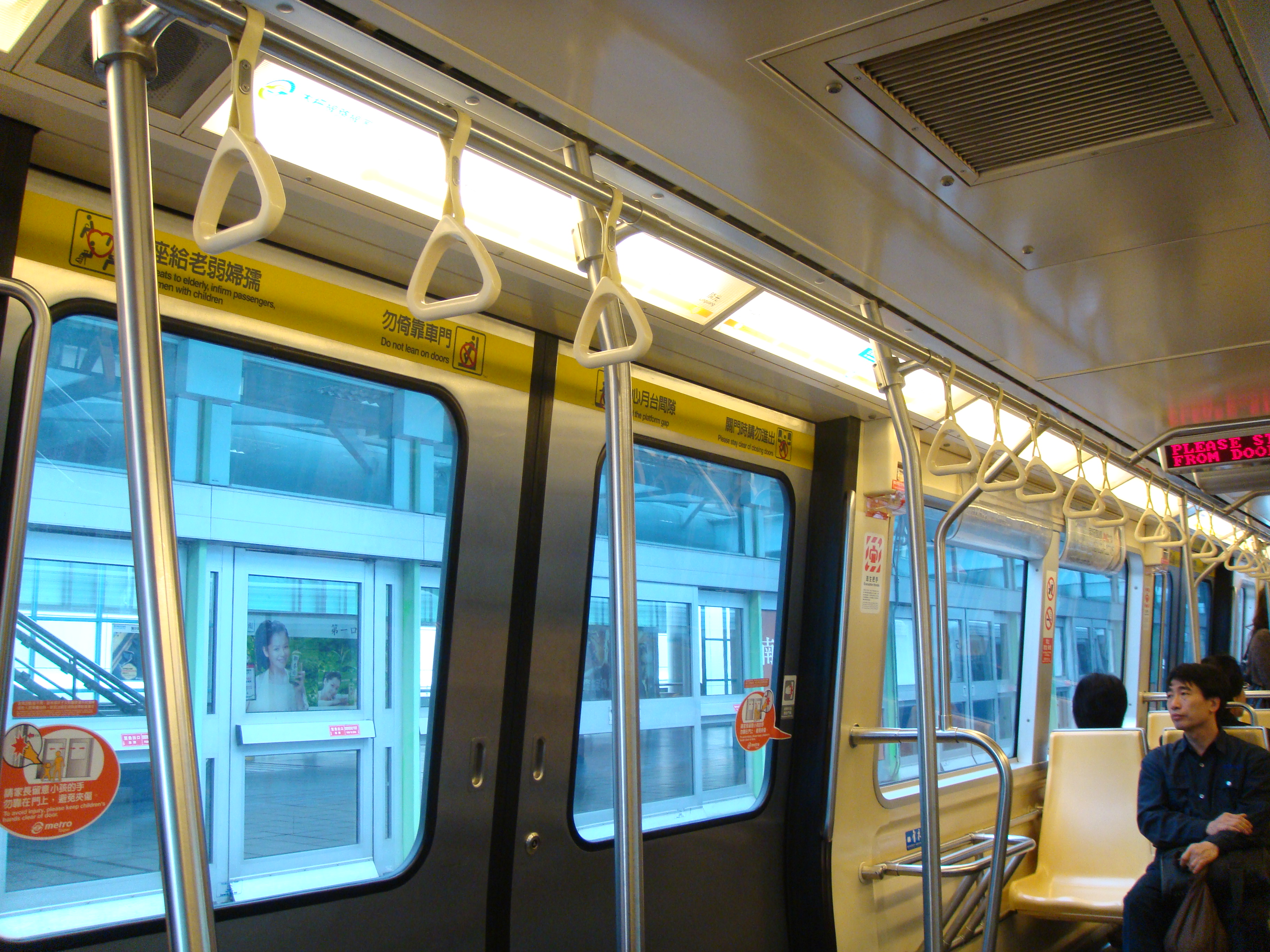 Door section of the VAL 256 interior, Muzha Line, Taipei Metro, Taiwan.